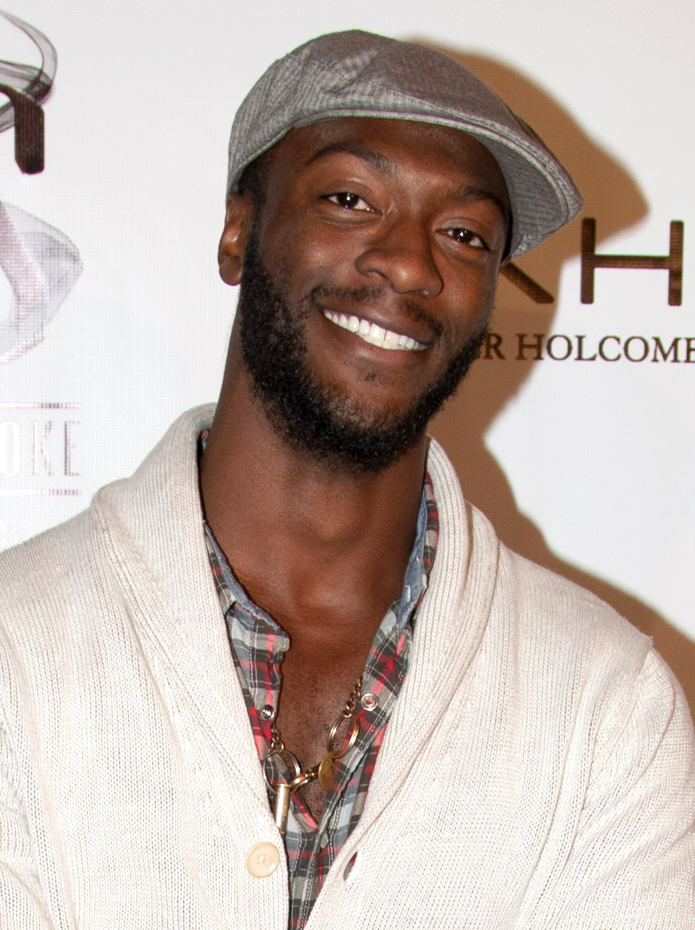 In unparalleled style, the law firm of Kramer Holcomb Sheik LLP set a new standard with their launch party. Done in tandem with BRG-LA's hottest new steakhouse, Smoke , over 700 people including celebrities, judges, athletes, lawyers, designers, financiers… attended and walked the black carpet.